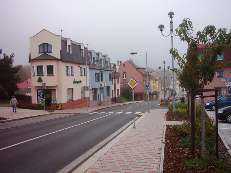 Aš, Main street